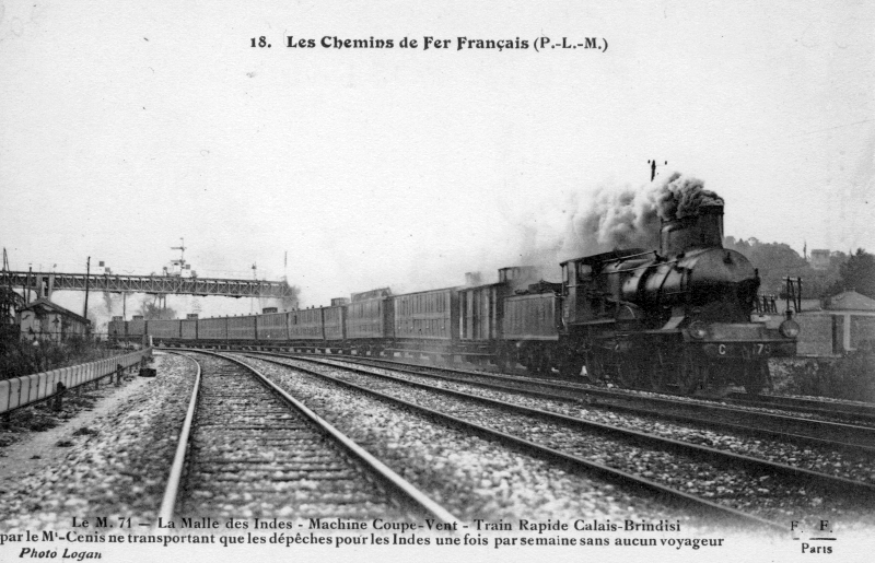 Postal train Calais - Brindisi "La Malle des Indes".